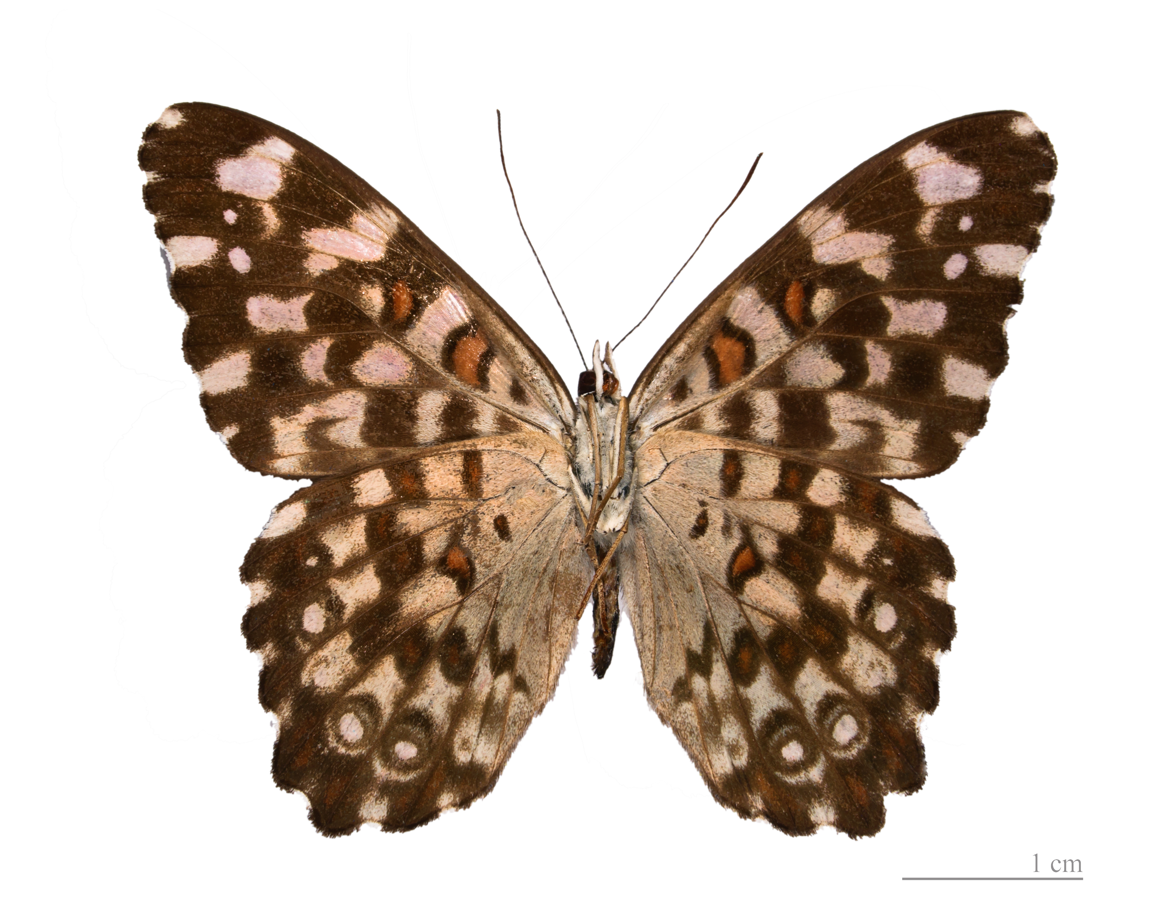 ♂ - △ Ventral side Locality : Kaw road, departing runway Fourgassié, French Guiana.